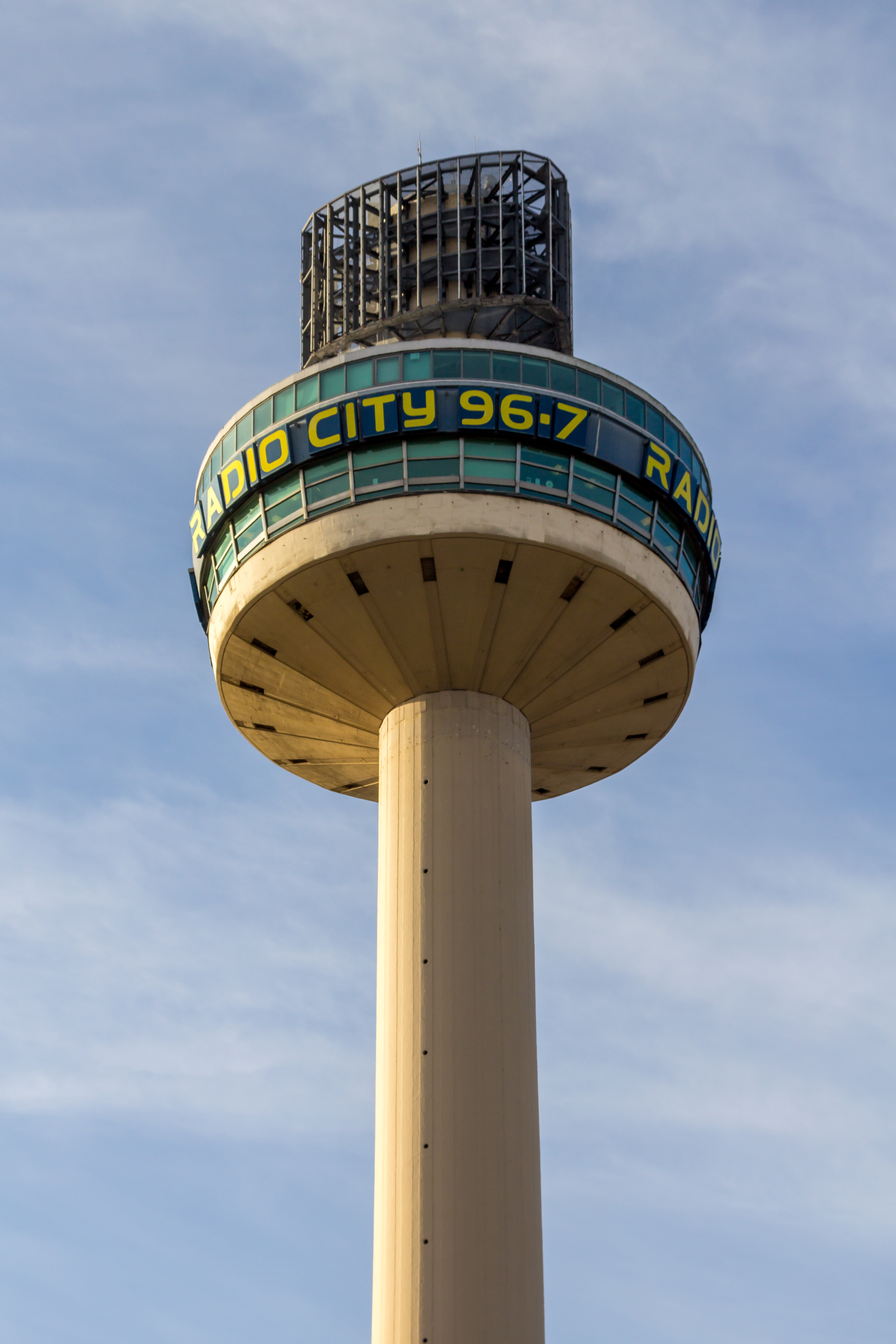 Radio City Tower, Liverpool